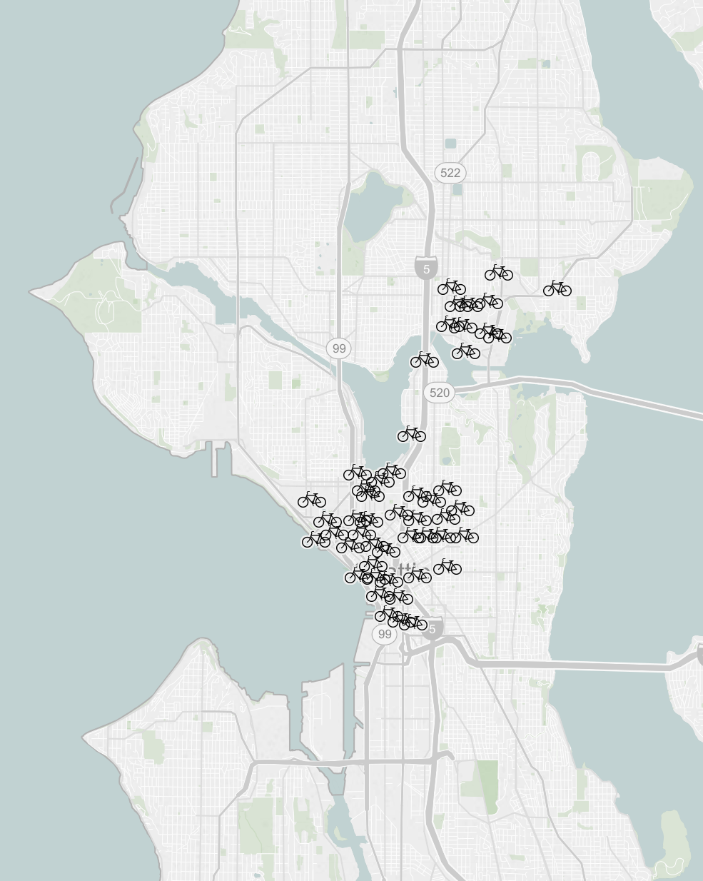 Map of Pronto Cycle Share stations in Seattle. Created with Tableau